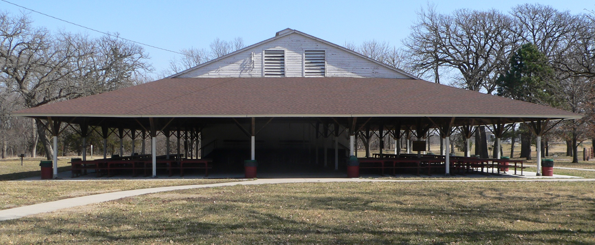 Chautauqua Pavilion, located in Chautauqua Park in southern Beatrice, Nebraska. Seen from the east.